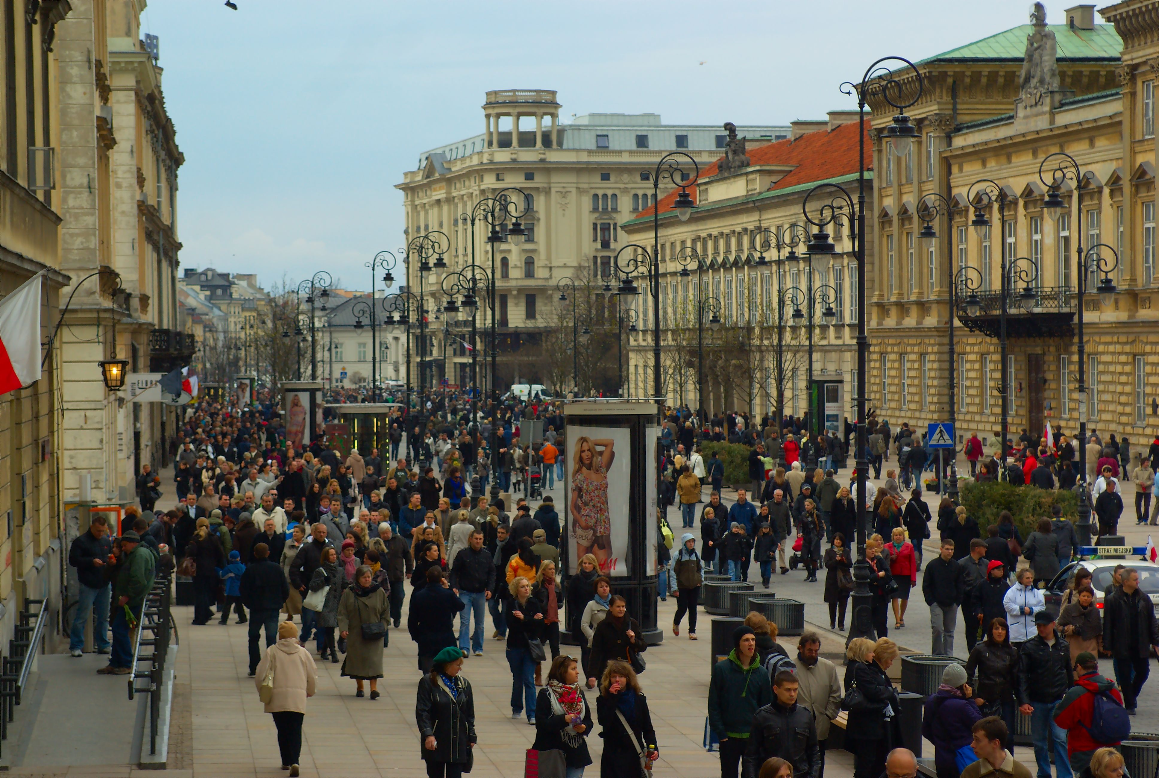 Warsaw after presidents plane crash. Krakowskie przedmieście st.